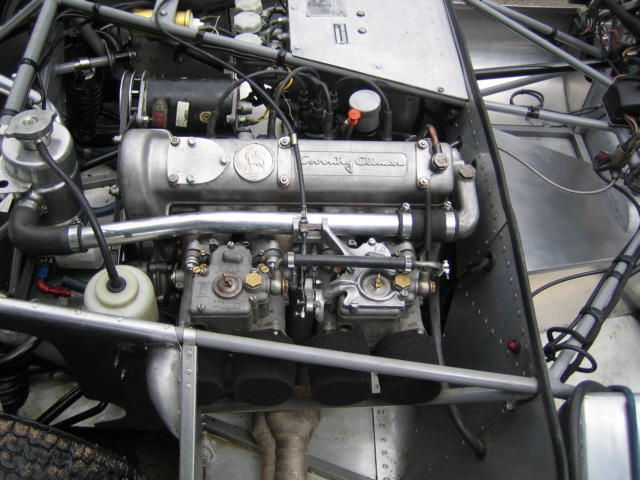 Coventry Climax FWA 1098cc engine in a Lotus 17